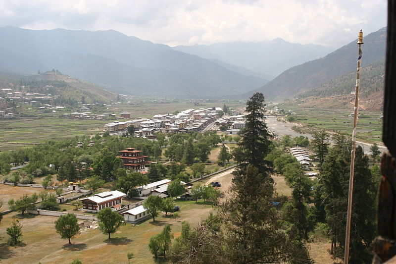 Paro, Bhutan